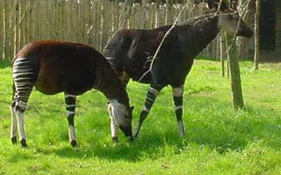 Two okapis at Chester Zoo, England.